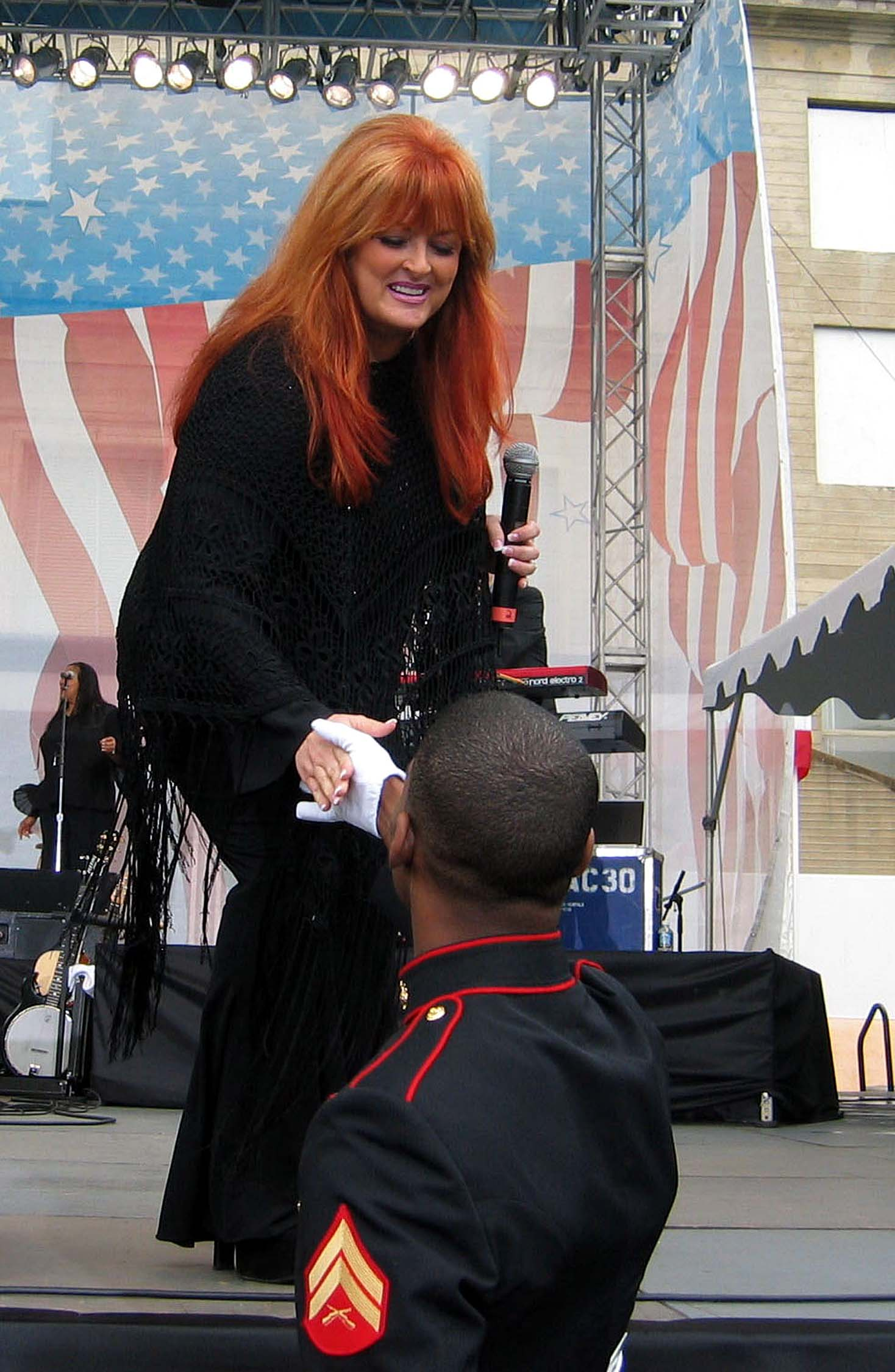 Country music superstar Wynonna Judd shakes hands with Marine Cpl. Jamale Jones, a Pentagon tour guide, during a USO concert at the Pentagon, May 21, 2004. Several hundred service members, family members and Defense Department civilian employees turned out for Judd's 40-minute concert celebrating National Military Appreciation Month.